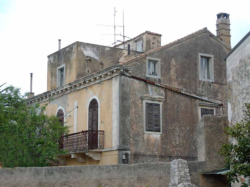 Today image of the former "Manora" Observatory (1894.-1909), Mali Lošinj island, Croatia. Manora Observatory was the home of one of the most controversial world astronomer Spiridon Gopčević (known under his "artistic" name of Leo Brenner) author. K. Korlević